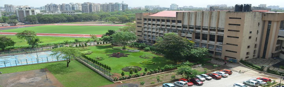 KJSH.